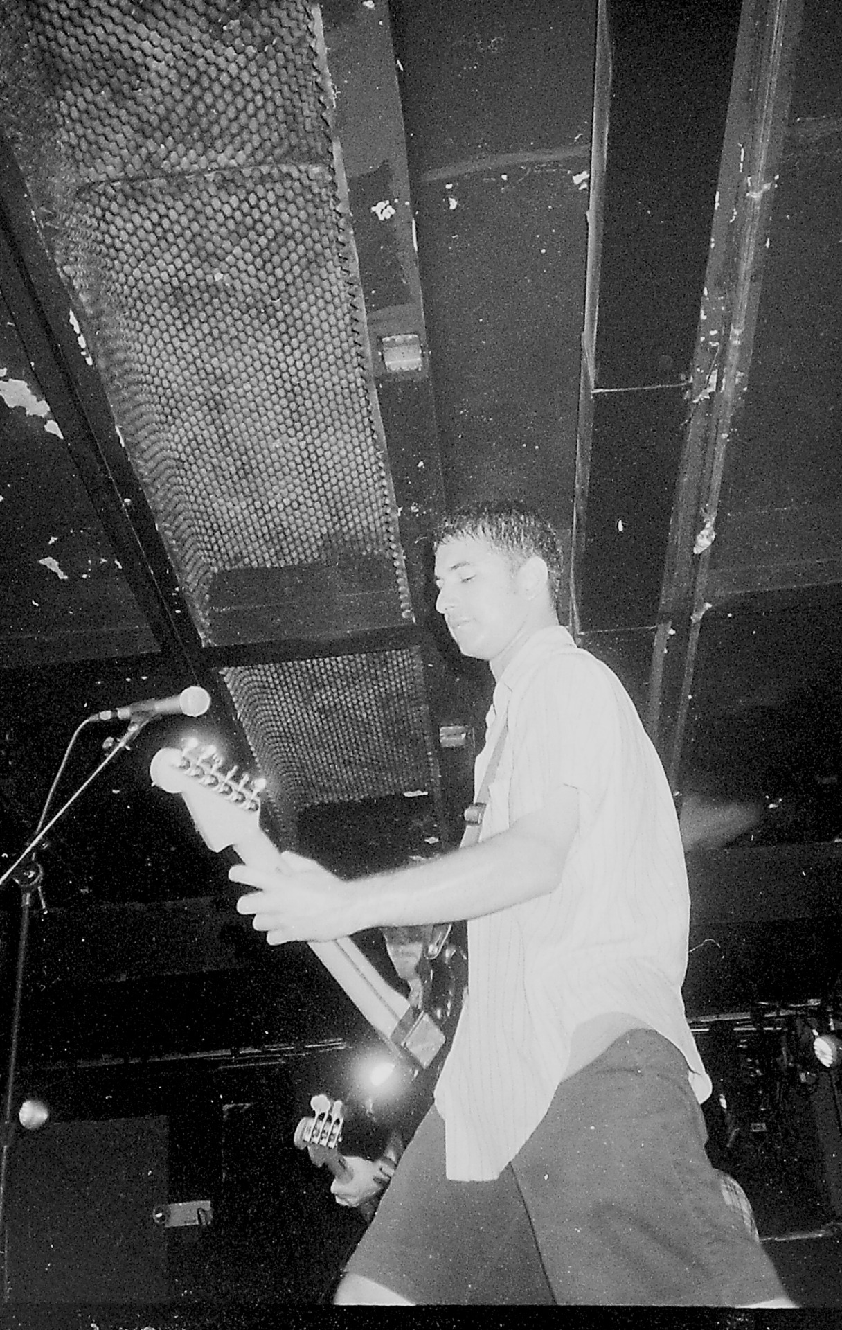 Geoff Sanoff and Sohrab Habibion of Edsel, Summer 1995